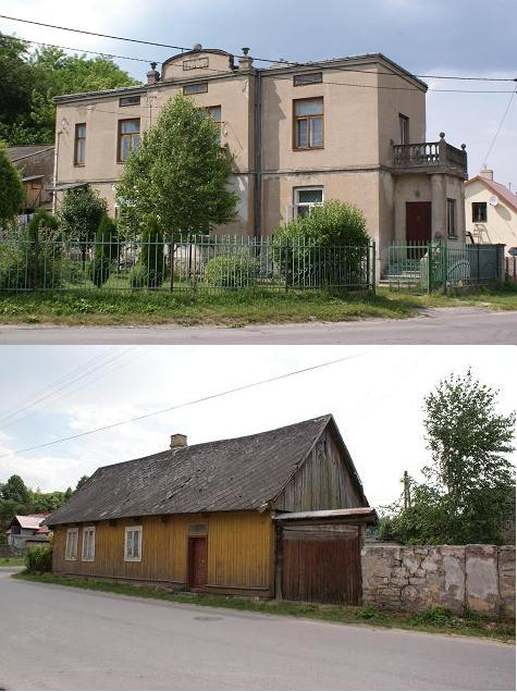 Bulding witch XIX and XX